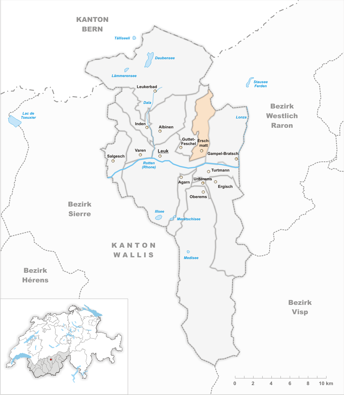 Municipality Erschmatt